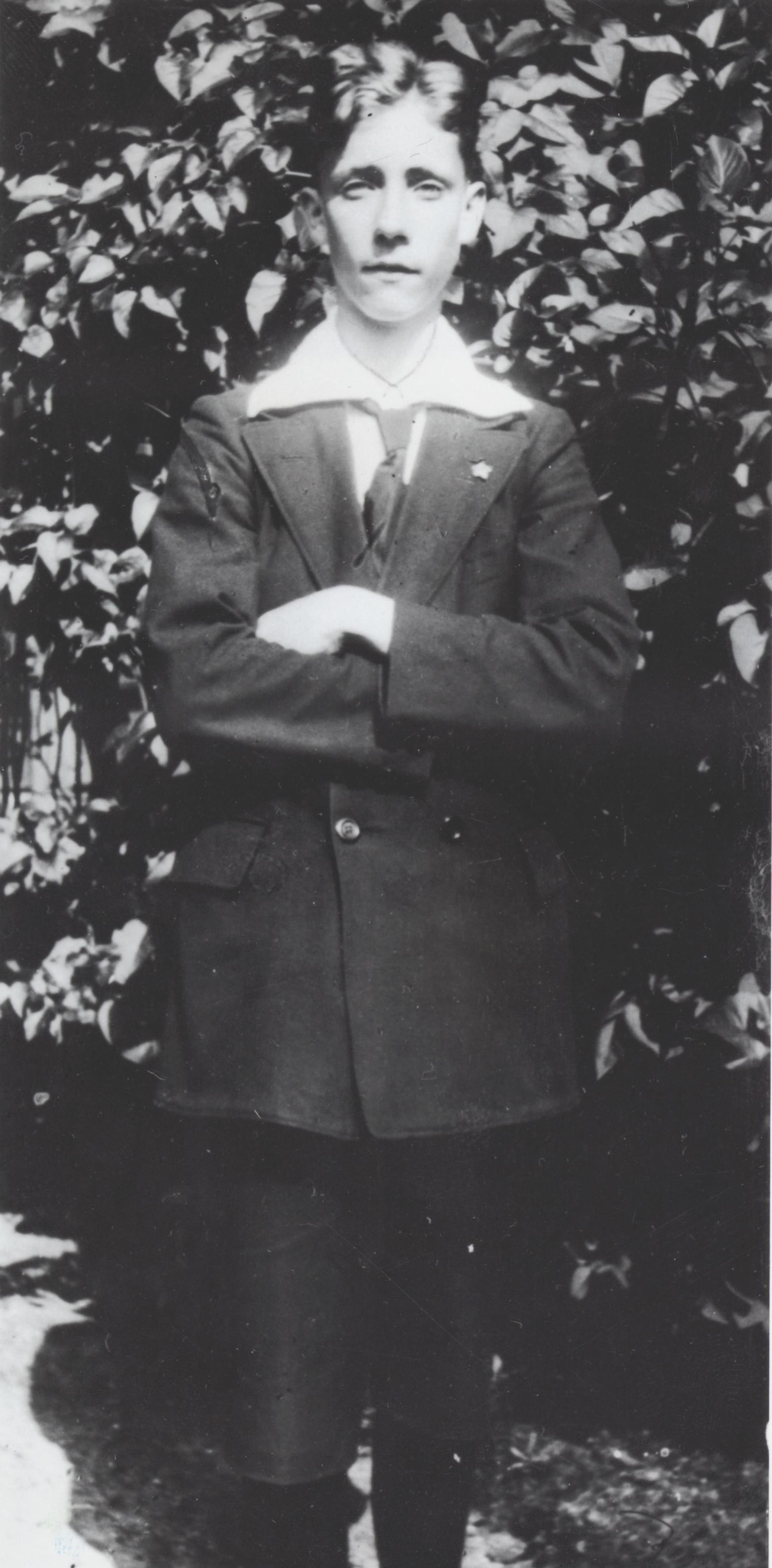 Hendrik Marsman (1899-1940), Dutch poet